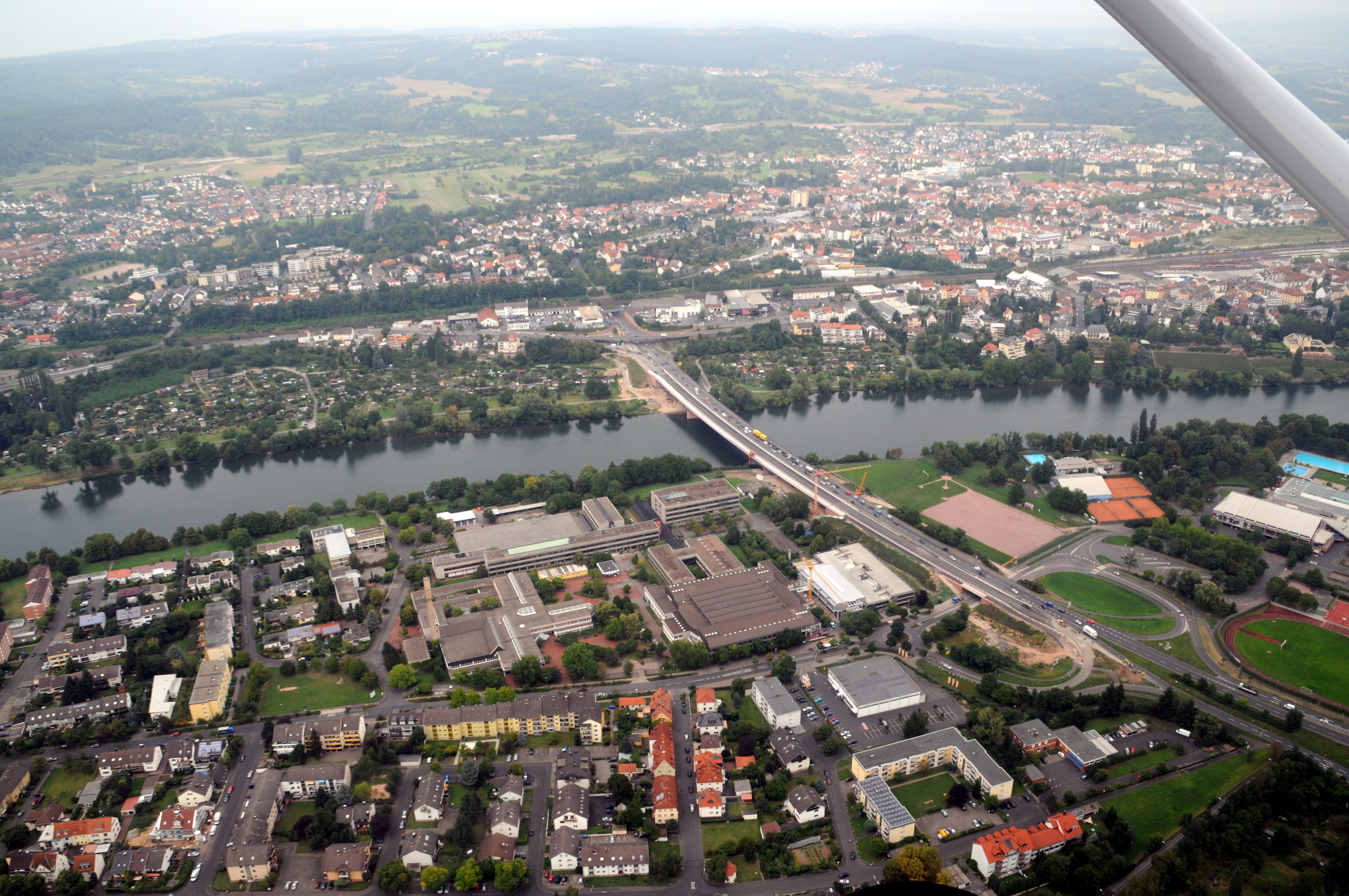 Leider & Damm, Aschaffenburg, Bavaria, Germany, aerial photograph